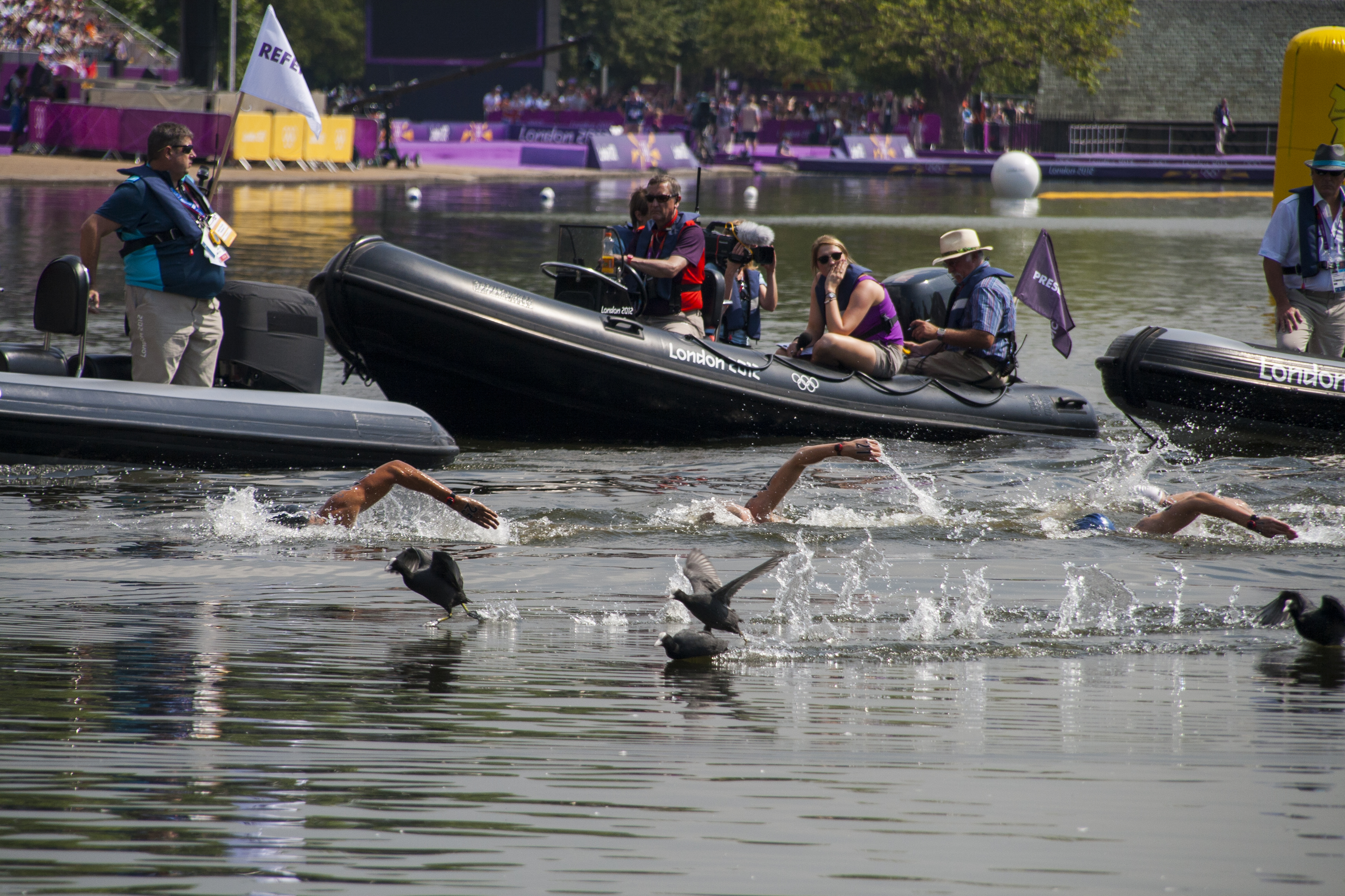 The men's 10 kilometre marathon swim at the 2012 Olympic Games in the Serpentine at Hyde Park.